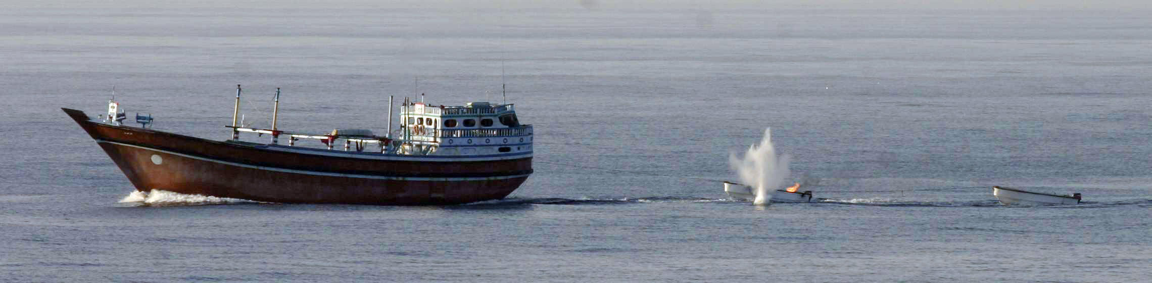 ARABIAN SEA (Feb. 2, 2011) A skiff being towed by a suspected pirate mothership is destroyed by weapons fire from the guided-missile destroyer USS Momsen (DDG 92) after Momsen disrupted an attack on a commercial oil tanker in the Arabian Sea. Momsen and the guided-missile cruiser USS Bunker Hill (CG 54) came to the aid of the merchant vessel simultaneously in a coordinated rescue and assist effort after receiving a distress call. Momsen and Bunker Hill are deployed supporting maritime security operations and theater security cooperation efforts in the U.S. 5th Fleet area of responsibility. (U.S. Navy photo by Chief Hull Maintenance Technician John Parkin/Released)